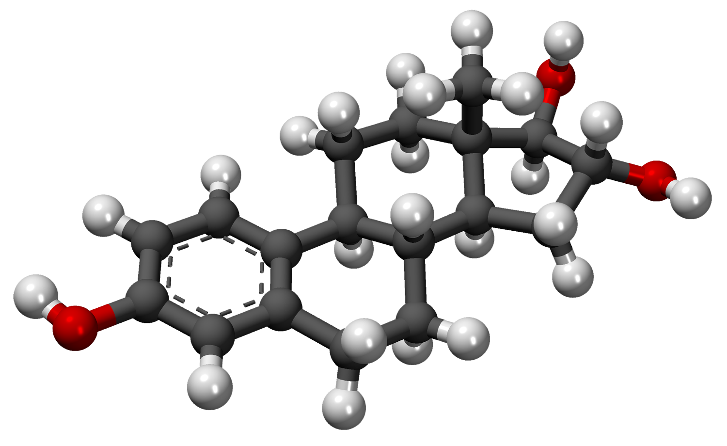 Ball-and-stick model of the Estriol molecule C18H24O3. Model constructed using ACD/ChemSketch and Accelrys DS Visualizer.